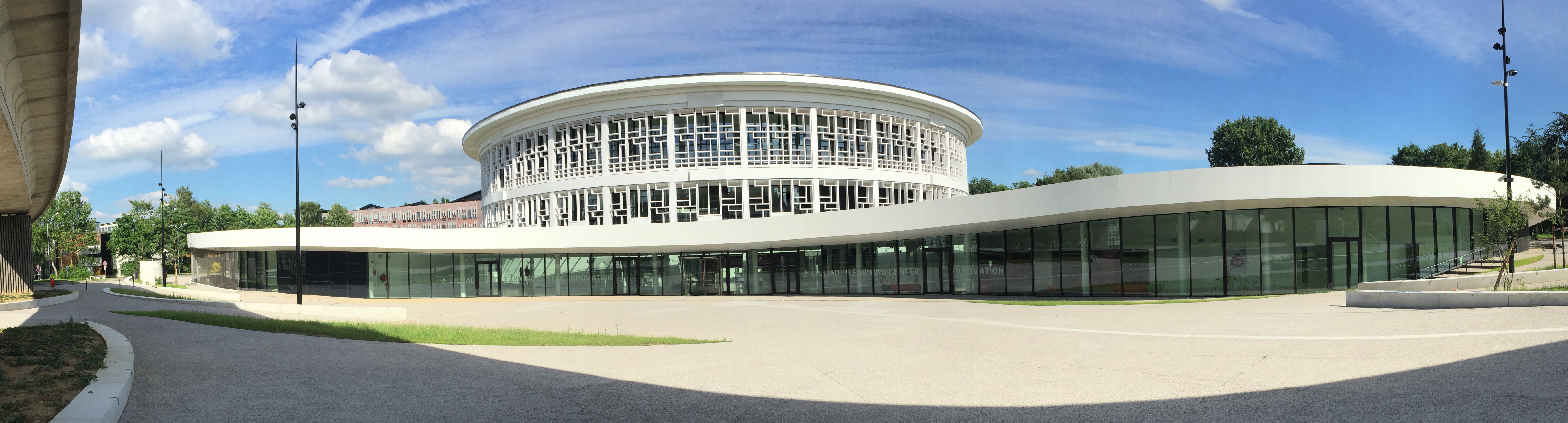 LILLIAD Learning Center Innovation, scientific university library of the University of Lille. Cité Scientifique - Villeneuve-d'Ascq.